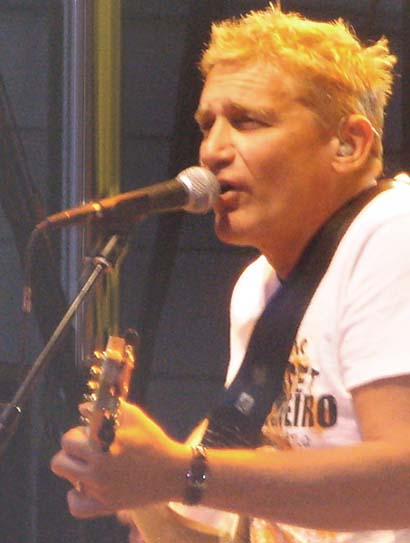 Rainhard Fendrich live during Austria 3 concert, Imst, Austria. Cropped, spotted, colour and otherwise edited version.